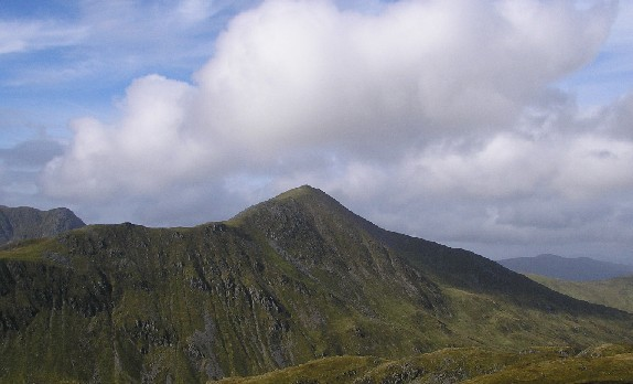 Ben Vorlich seen from the southeast. Taken by User:Grinner on the 26th September 2005.